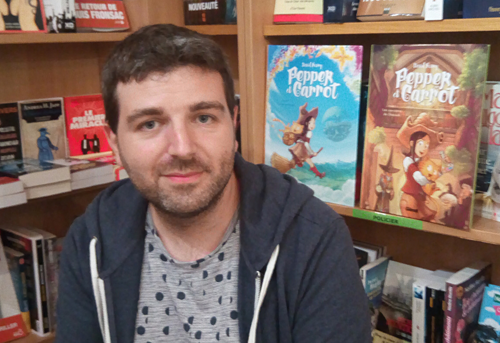 Photo of David Revoy and his first two albums that were published by Glénat, taken on a signing session in bookstore A Livr'ouvert in Paris on September 12, 2017. Modified by Midgard: cropped, scaled, enhanced